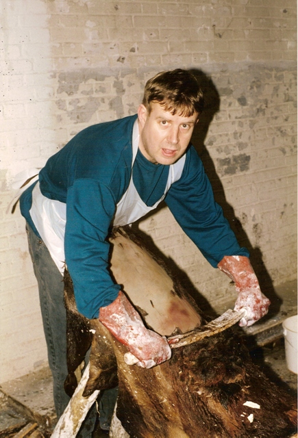 Making Parchment the depilation of skin by means of the bokknife